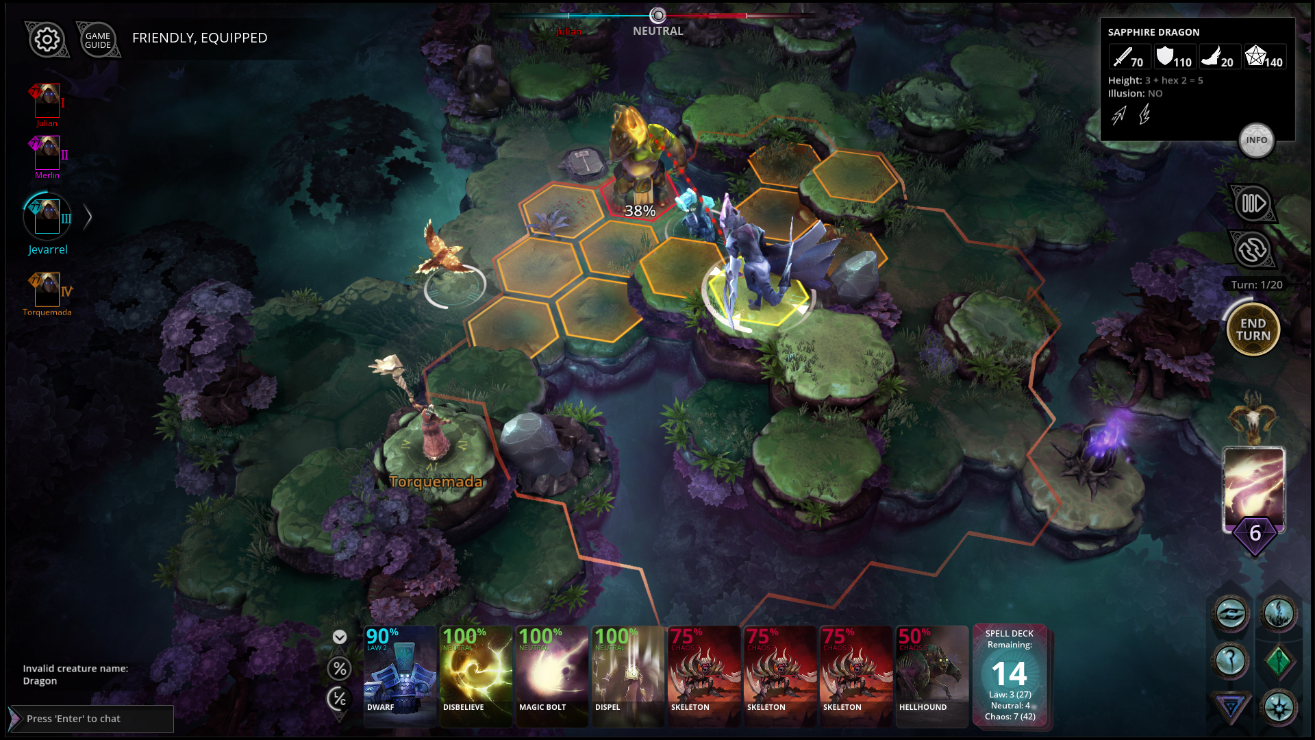 Players do battle in this Chaos Reborn screenshot. Released in 2015, the game was developed by Snapshot Games and is powered by Unity.